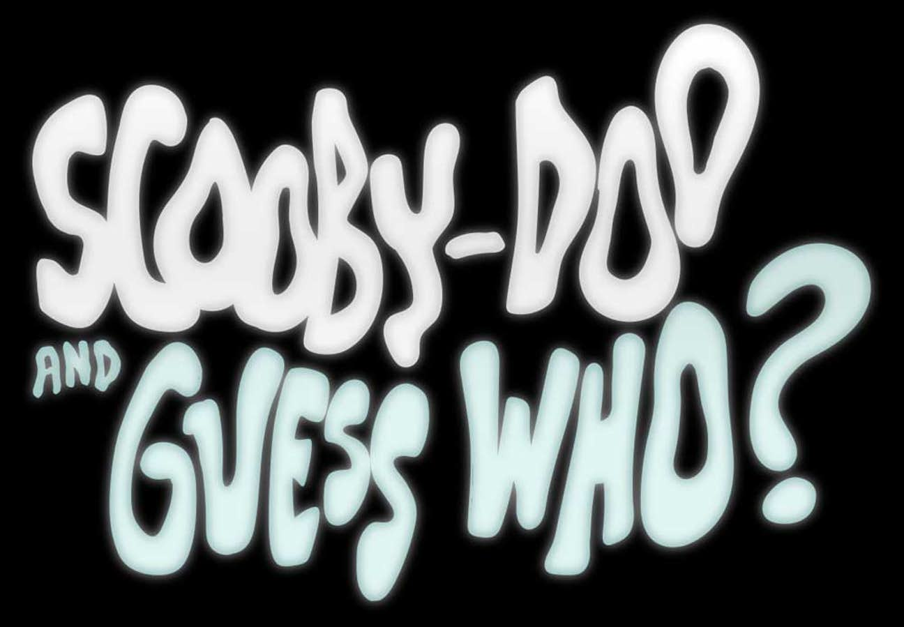 Logotype of Scooby-Doo and Guess Who?